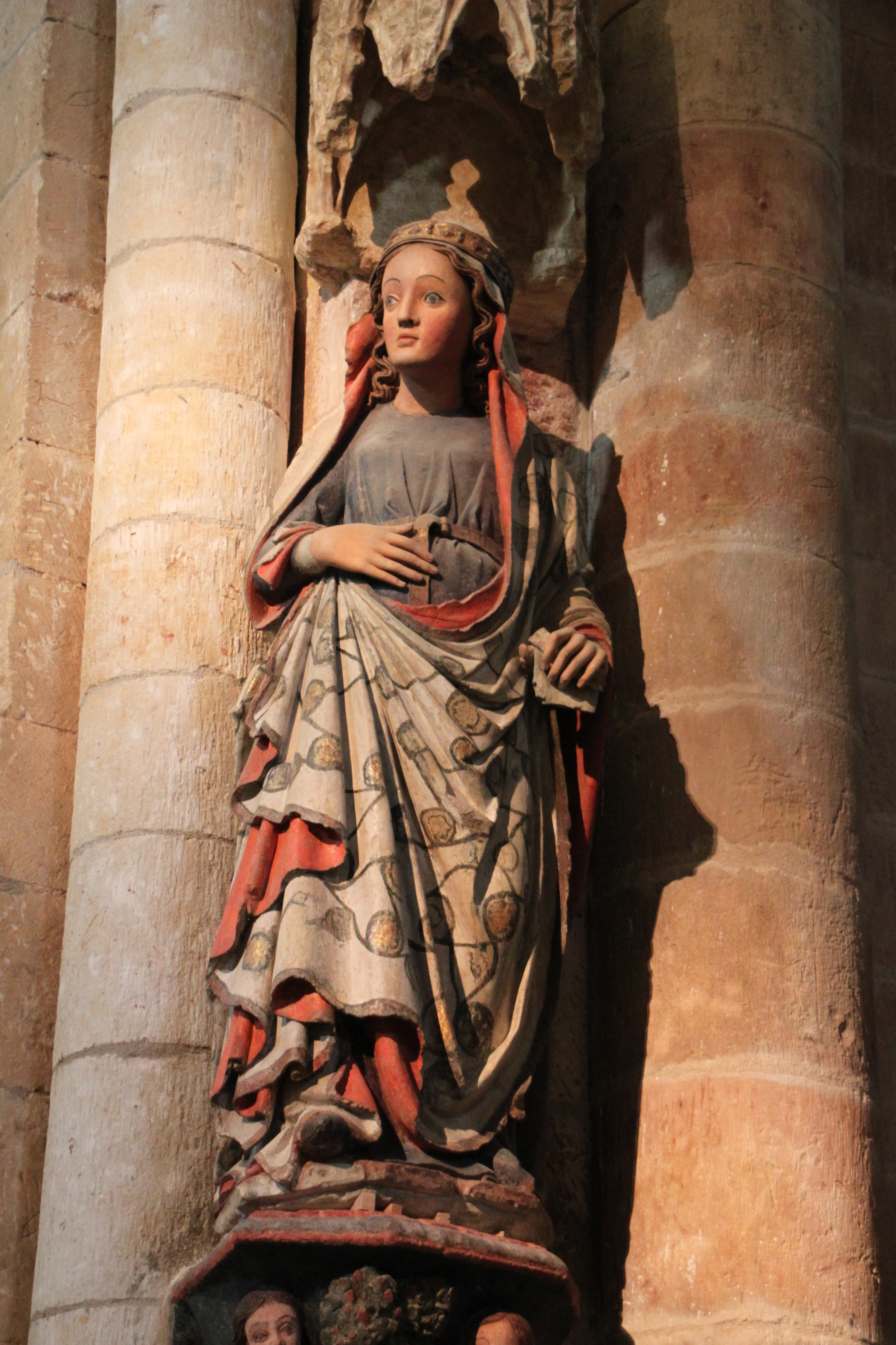 an unusual statue of a pregnant Virgin Mary